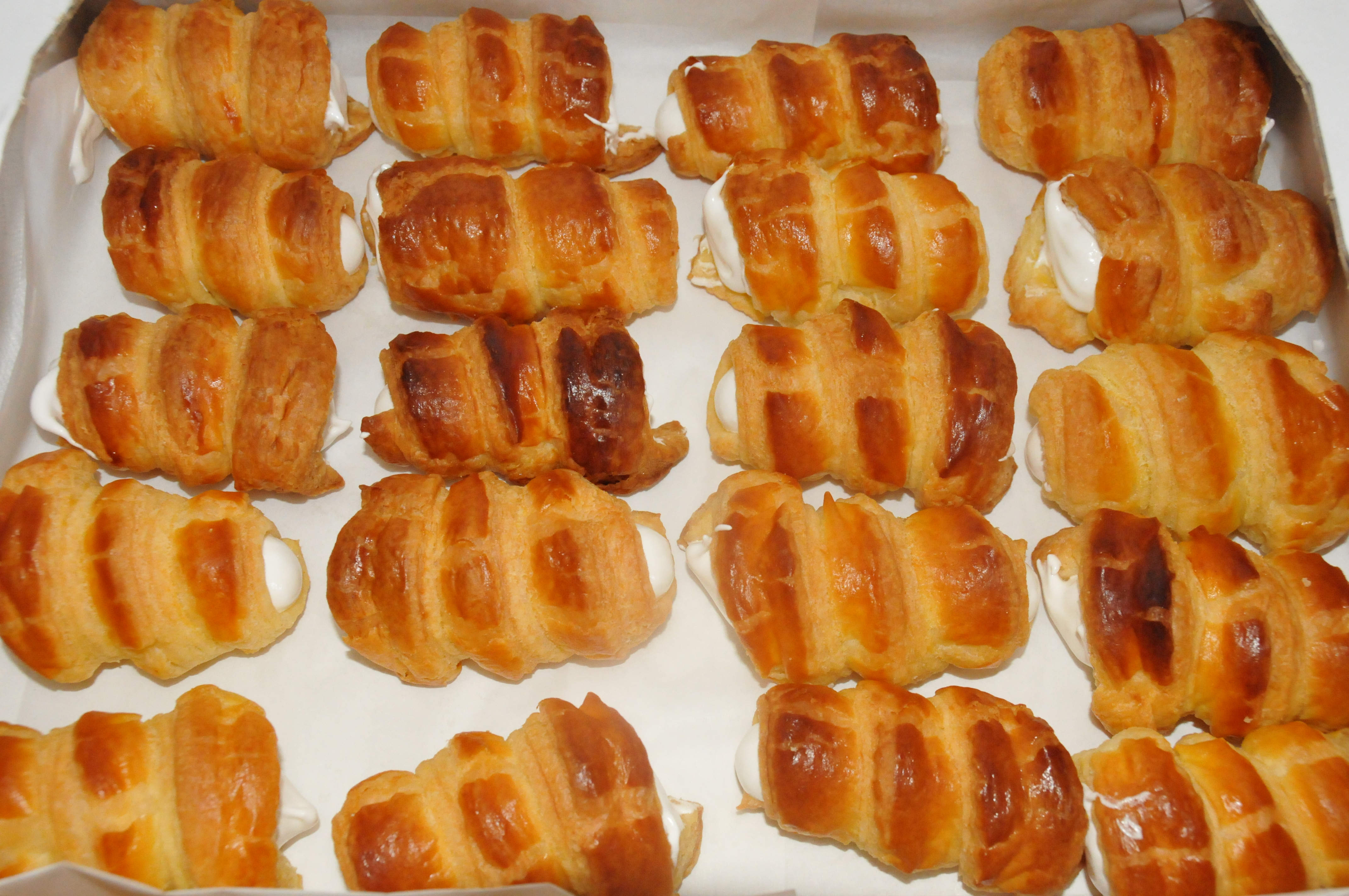 Schillerlocke Schaumrolle